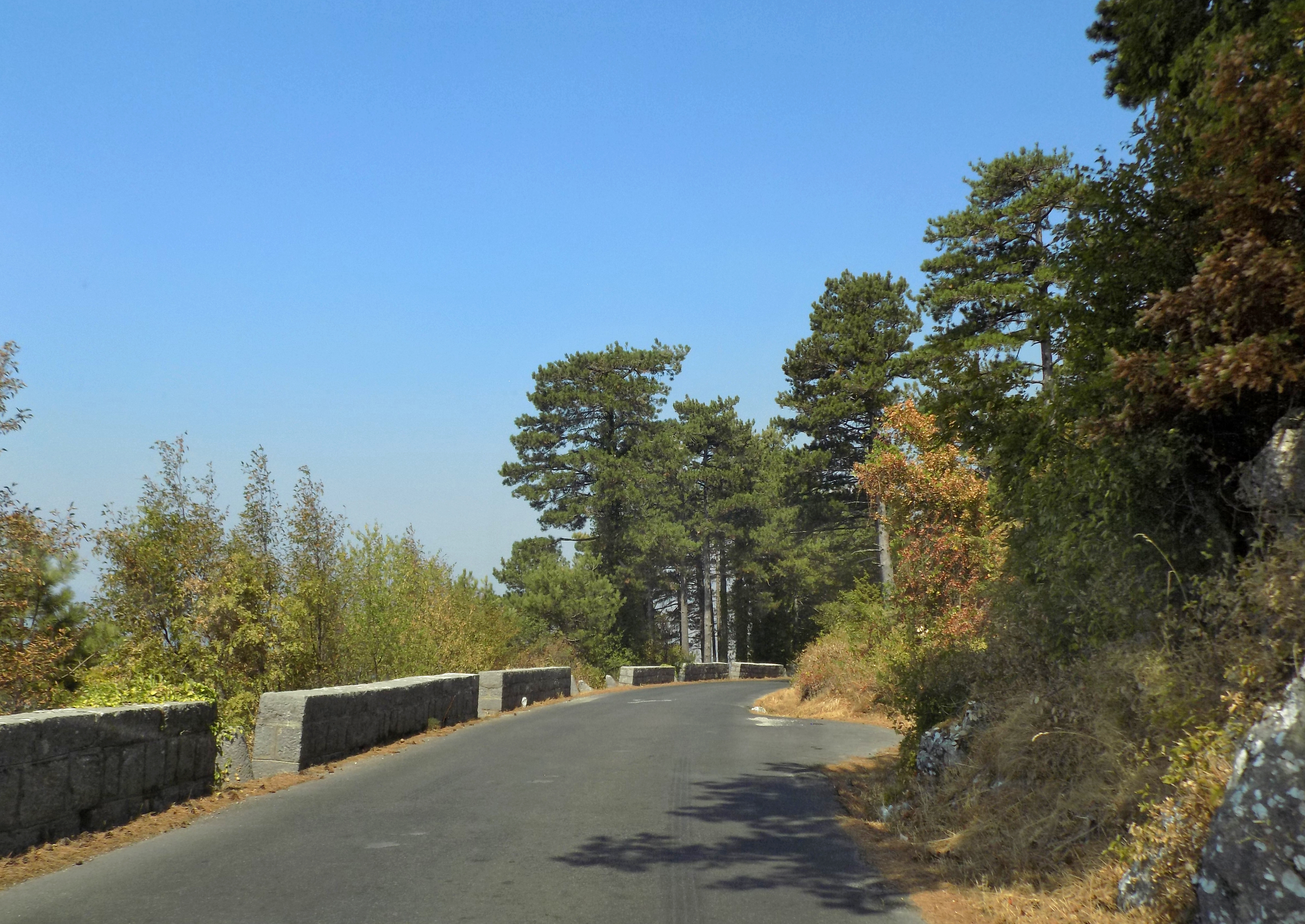 R-1 regional road (Montenegro) - one of the extensions for easy passing of vehicles